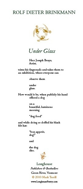 The cover of an edition of poems by Rolf Dieter Brinkmann